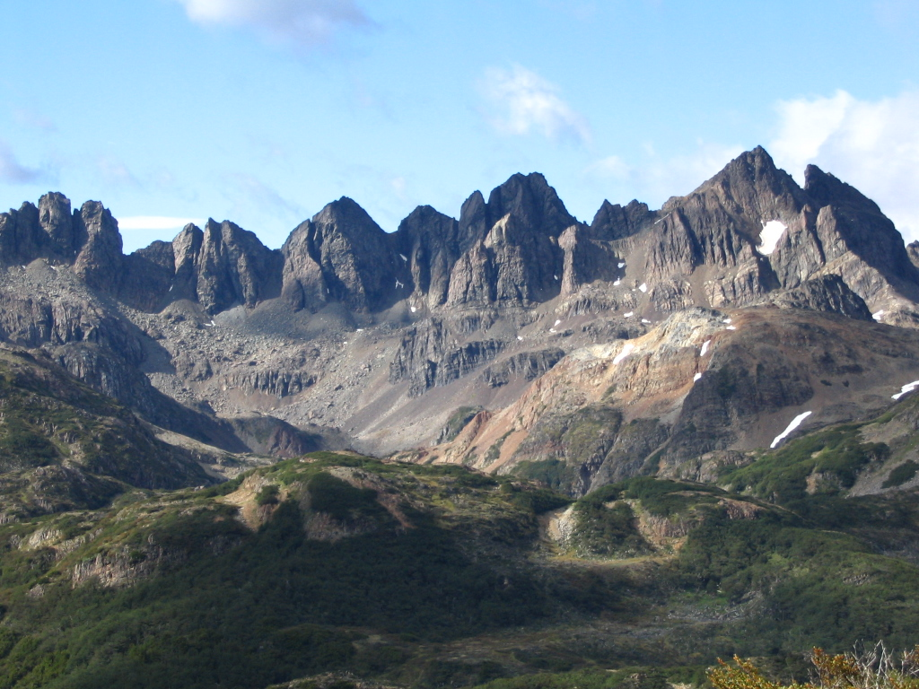 Dientes de Navarino, Navarino Island, Chile.